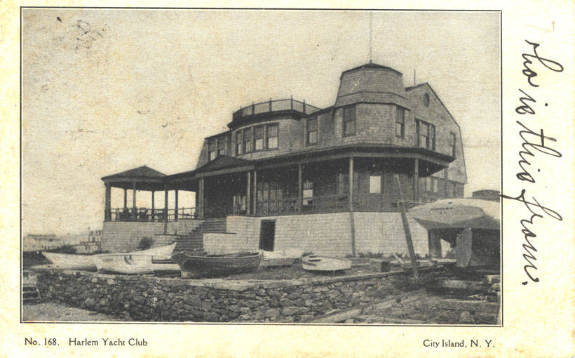 Original, analog object is a: single leaf: ill; 14 cm. printed on cardboard stock, depicting locales within the town. Digital object is a 24 bit, color representation of the analog original.